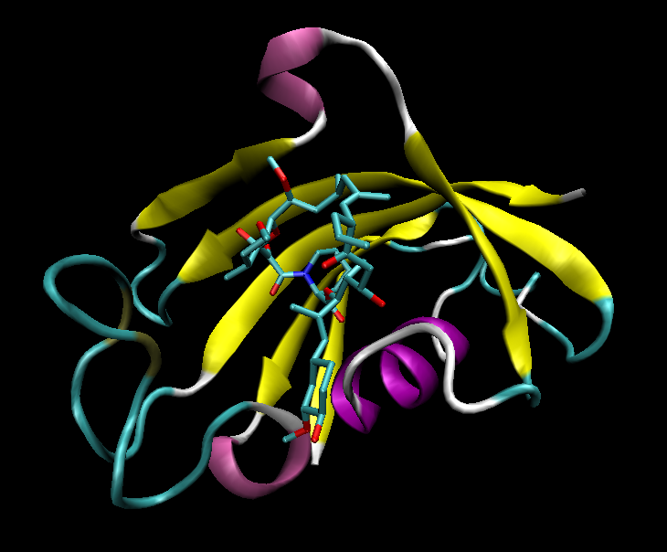 The human immunophilin protein FKBP12 colored by secondary structure with bound FK506, an immunosuppressant used in treating organ transplant patients to prevent rejection. FKBP also has unrelated prolyl isomerase activity.